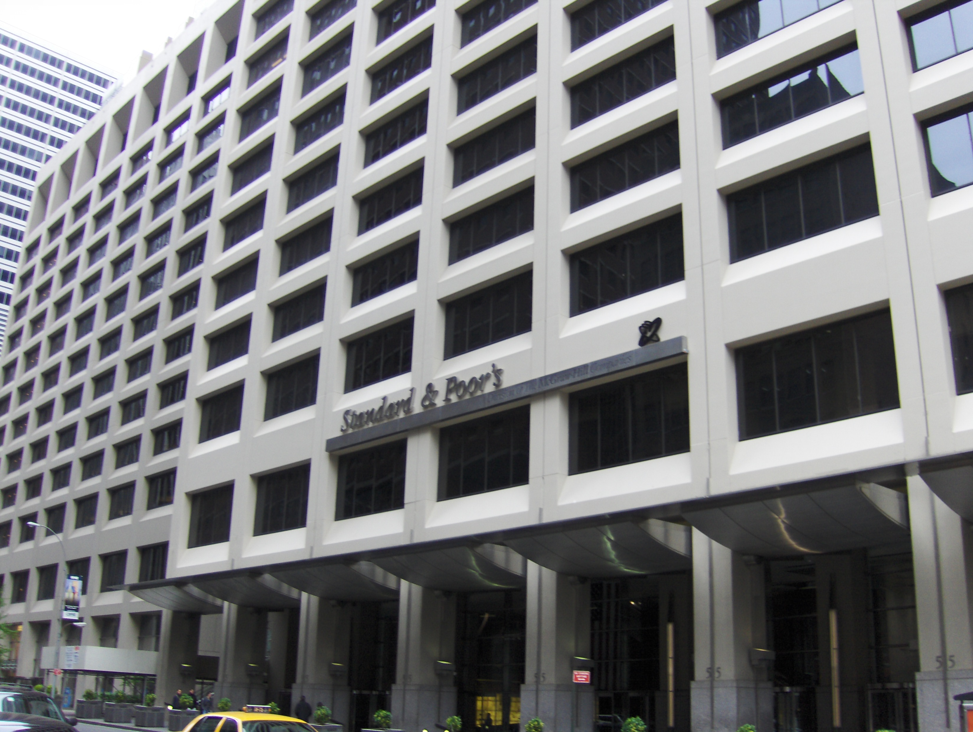 Standard & Poor's Headquarters in Lower Manhattan, New York City, New York (55 Water Street.